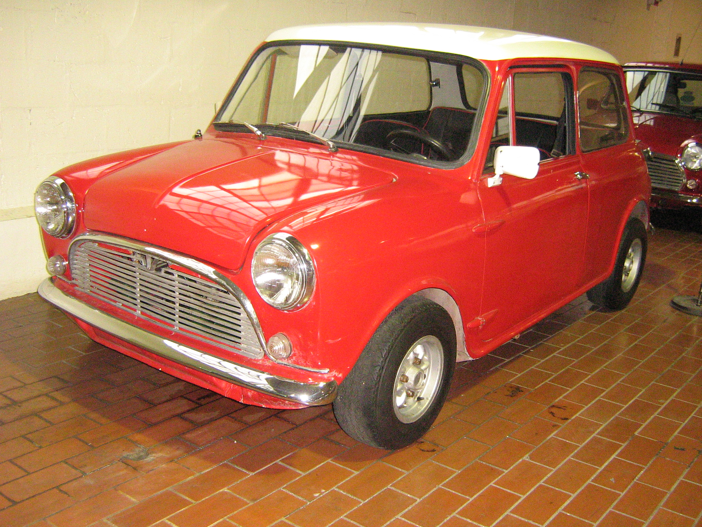 Built in South America ... with a fiberglass body! Peel built the prototype body and it was shipped to Chile for production. Notice the lack of front body seam. The panel gaps were a bit bigger too.